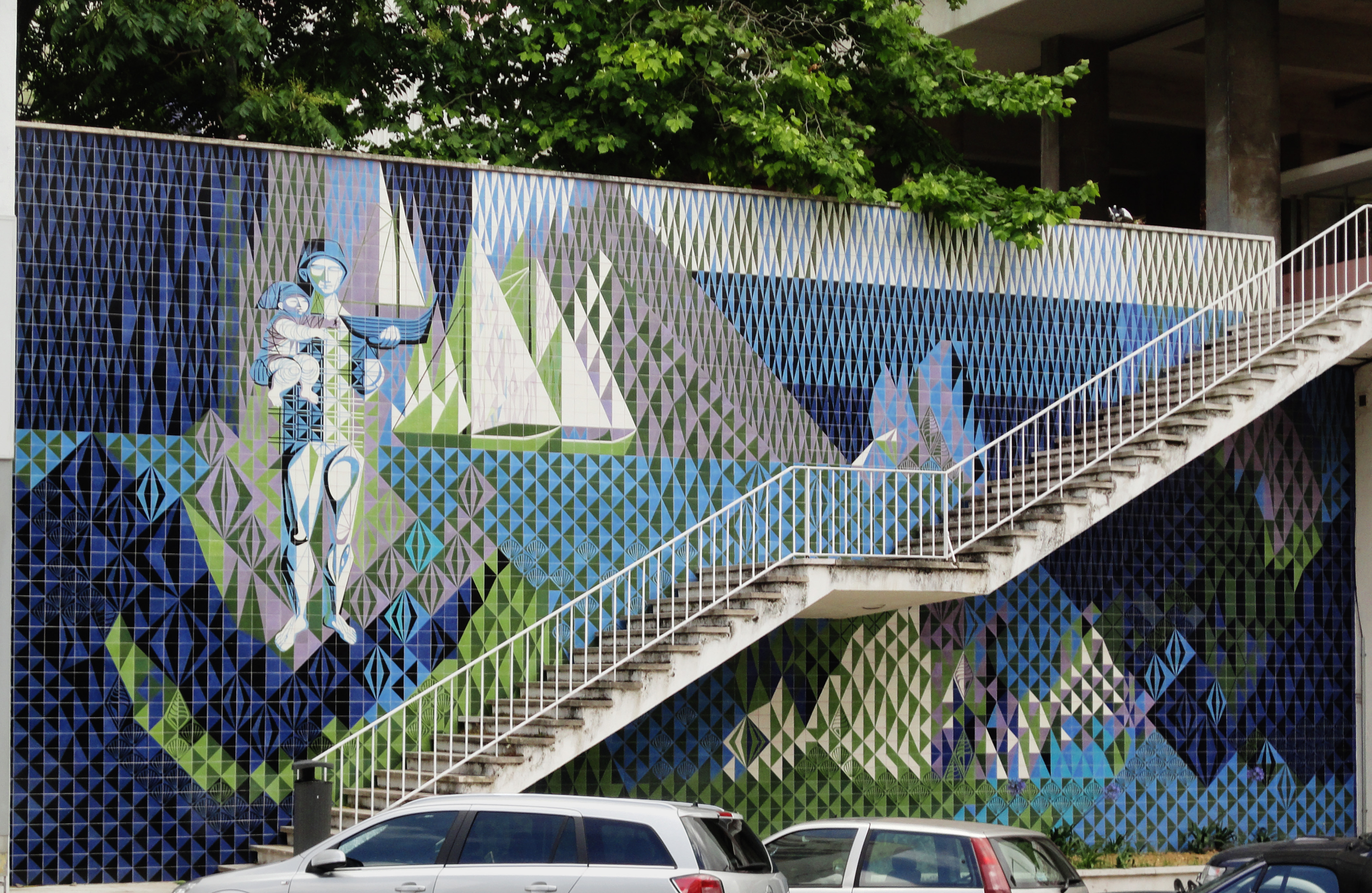 Ceramic tiles panel by Maria Keil, Av. Infante Santo, Lisbon, Portugal